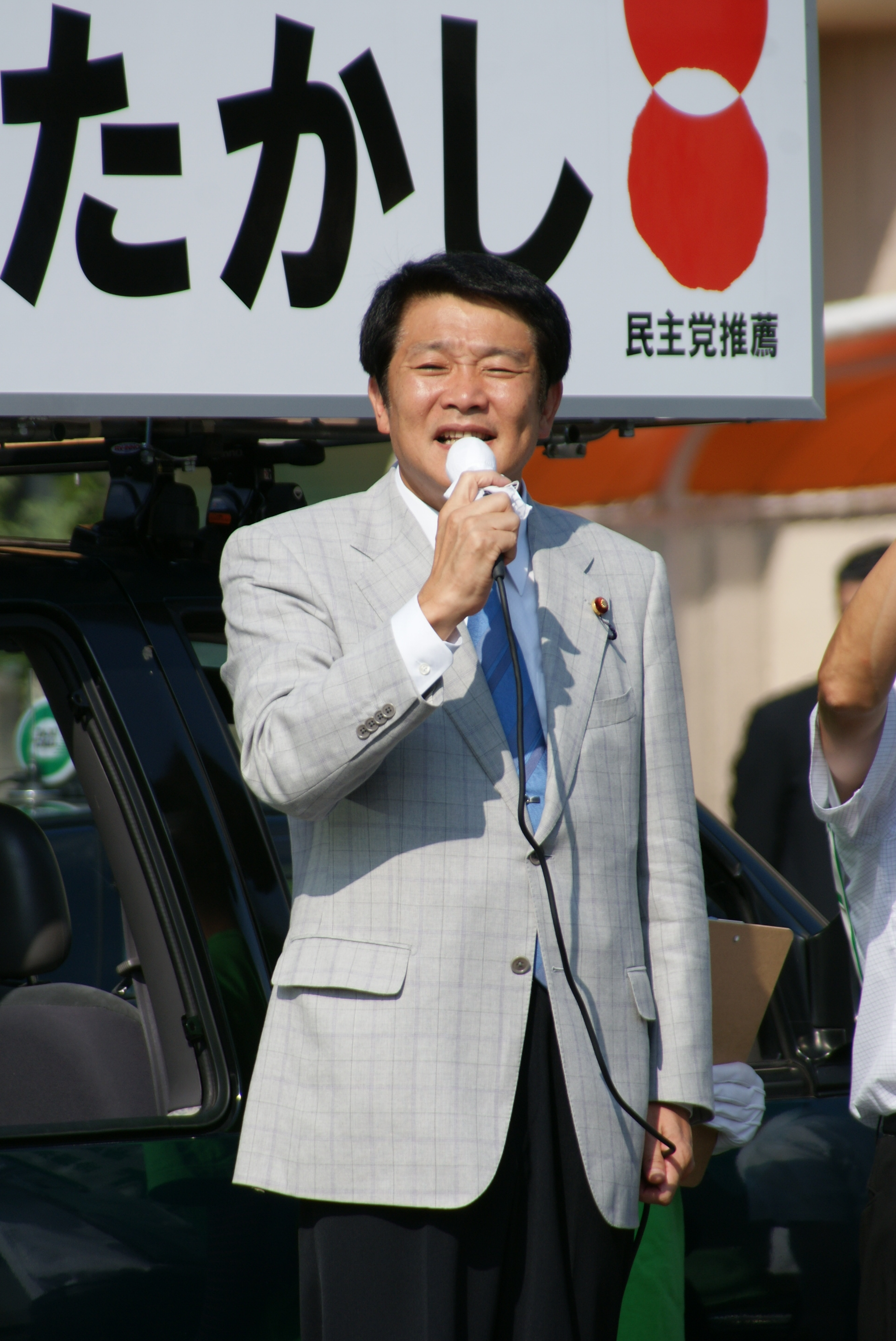 Democratic Party of Japan politician Tetsuhisa Matsuzaki speaking in front of Sakado Station, Saitama